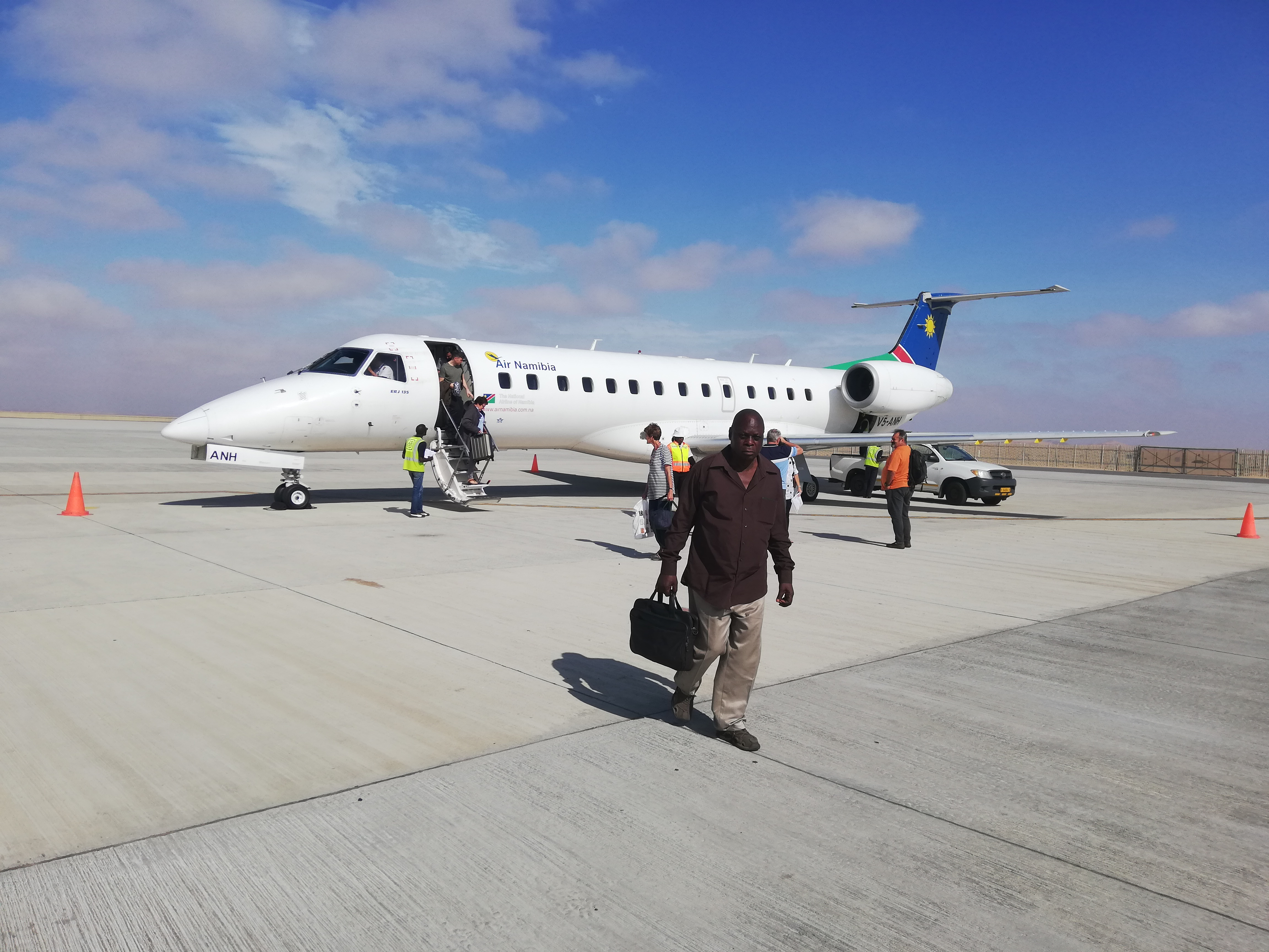 A small Air Namibia aircraft disembarking at Walvis Bay Airport in Namibia. Passengers simply disembark to walk to the arrival hall of the tiny airport. This is an image with the theme "Africa on the Move or Transport" from: Namibia